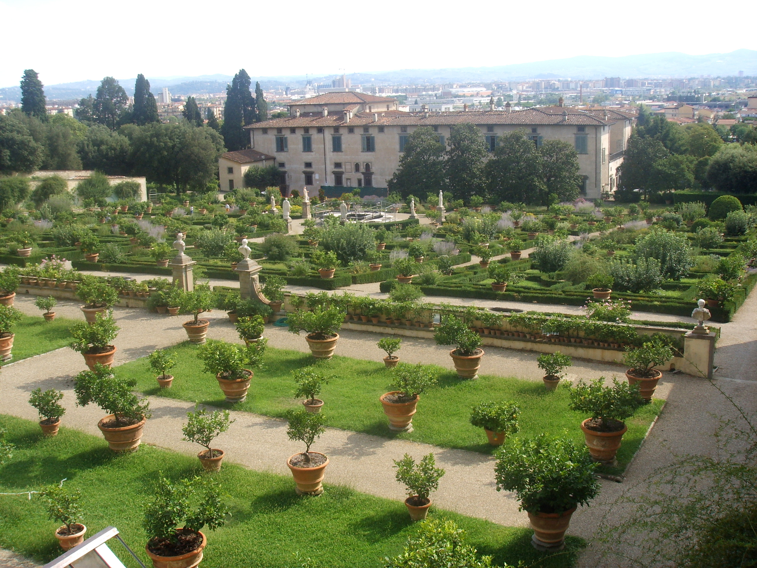 Summer open air Orangerie garden at the Parco di Villa Reale di Castello (gardens) (Villa di Castello). in Florence — Tuscany, Italy (Villa di Castello).